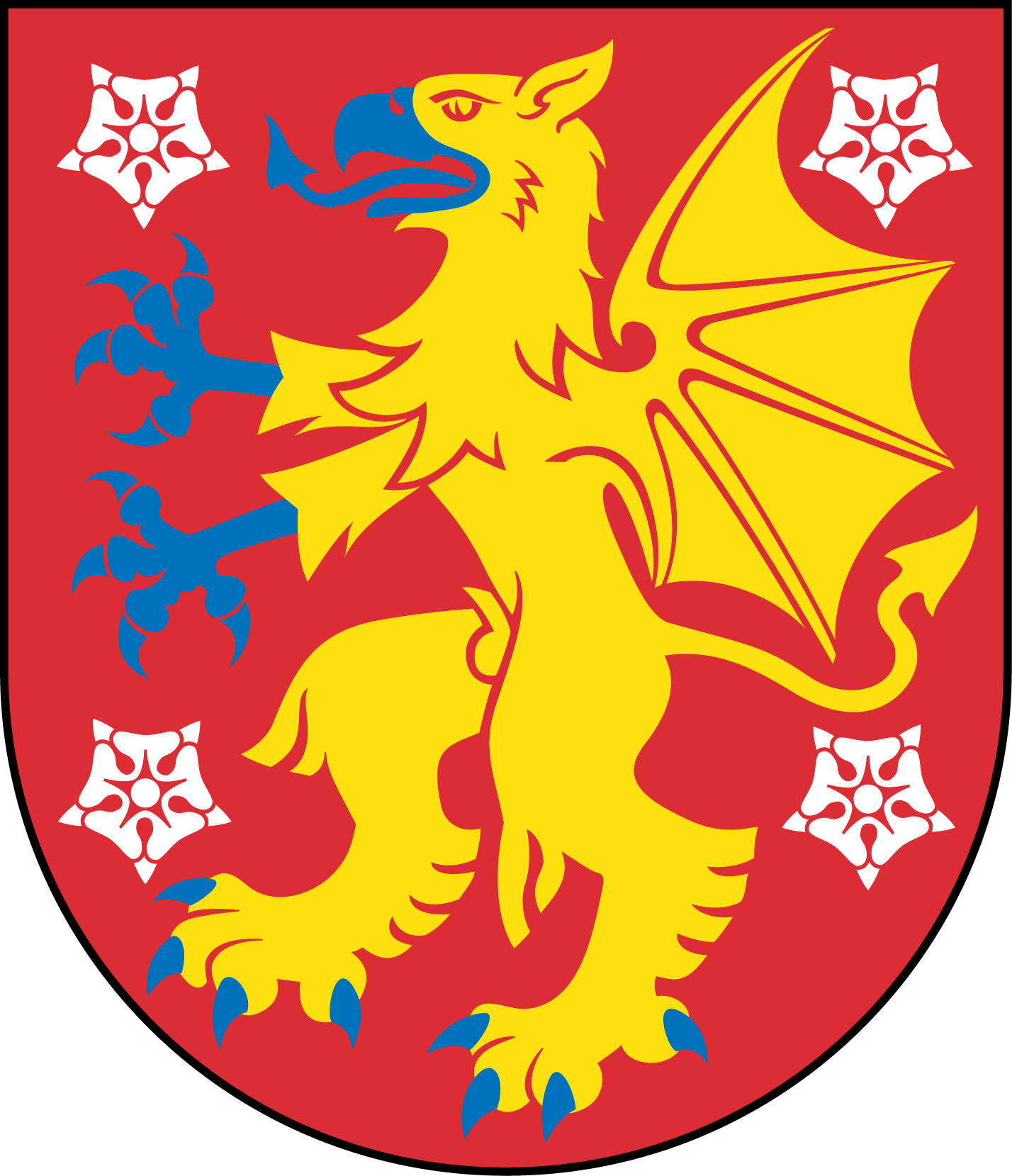 Coat of arms of the province of Östergötland, Sweden. Painted by Vladimir A. Sagerlund when he was the heraldic artist at the National Archives of Sweden (Riksarkivet). This representation of a coat of arms is potentially different from the one used by the armiger (municipality or organisation) in question. = ⇑“Sable, a lionrampant or” This coat of arms was drawn based on its blazon which – being a written description – is free from copyright. Any illustration conforming with the blazon of the arms is considered to be heraldically correct. Thus several different artistic interpretations of the same coat of arms can exist. The design officially used by the armiger is likely protected by copyright, in which case it cannot be used here.Individual representations of a coat of arms, drawn from a blazon, may have a copyright belonging to the artist, but are not necessarily derivative works. Further information: Commons:Coats of arms and Template:Coa blazon